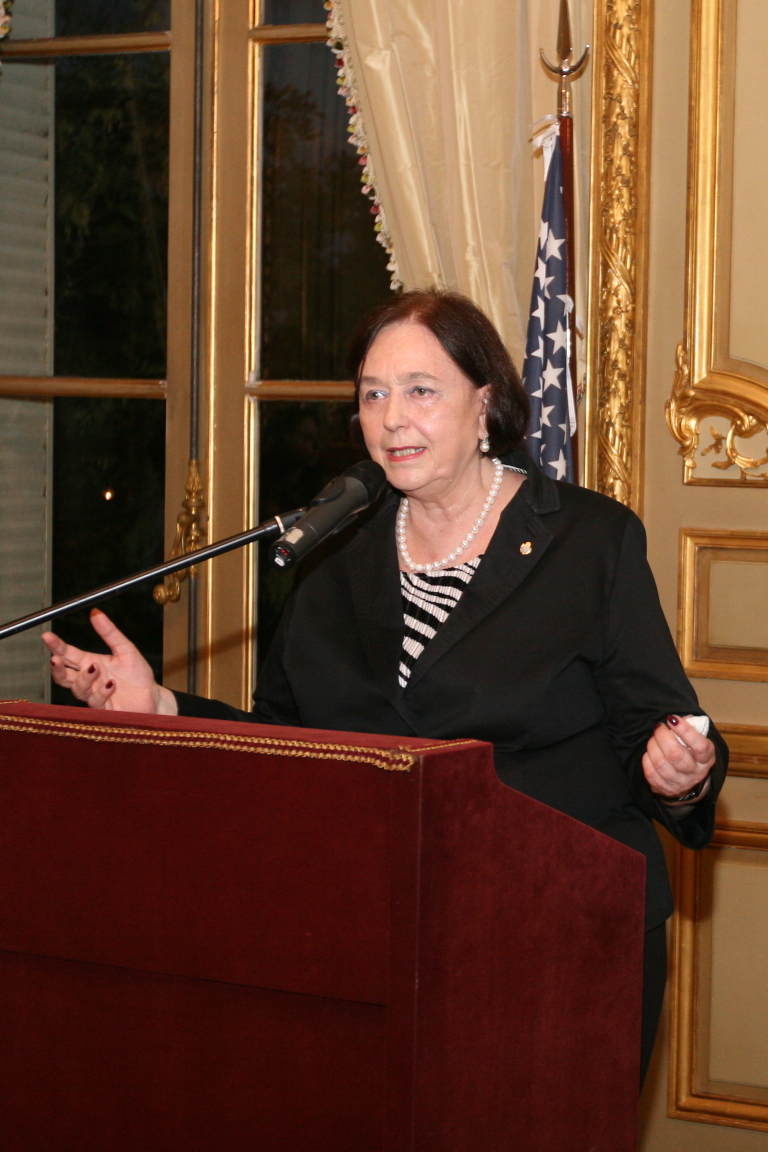 Elsa Kelly (born 1939), jurist from Argentina, Professor of International Law, former ambassador for Argentina in Chile, Italy, Austria and at the UNESCO; judge at the International Tribunal for the Law of the Sea (ITLOS) since October 2011